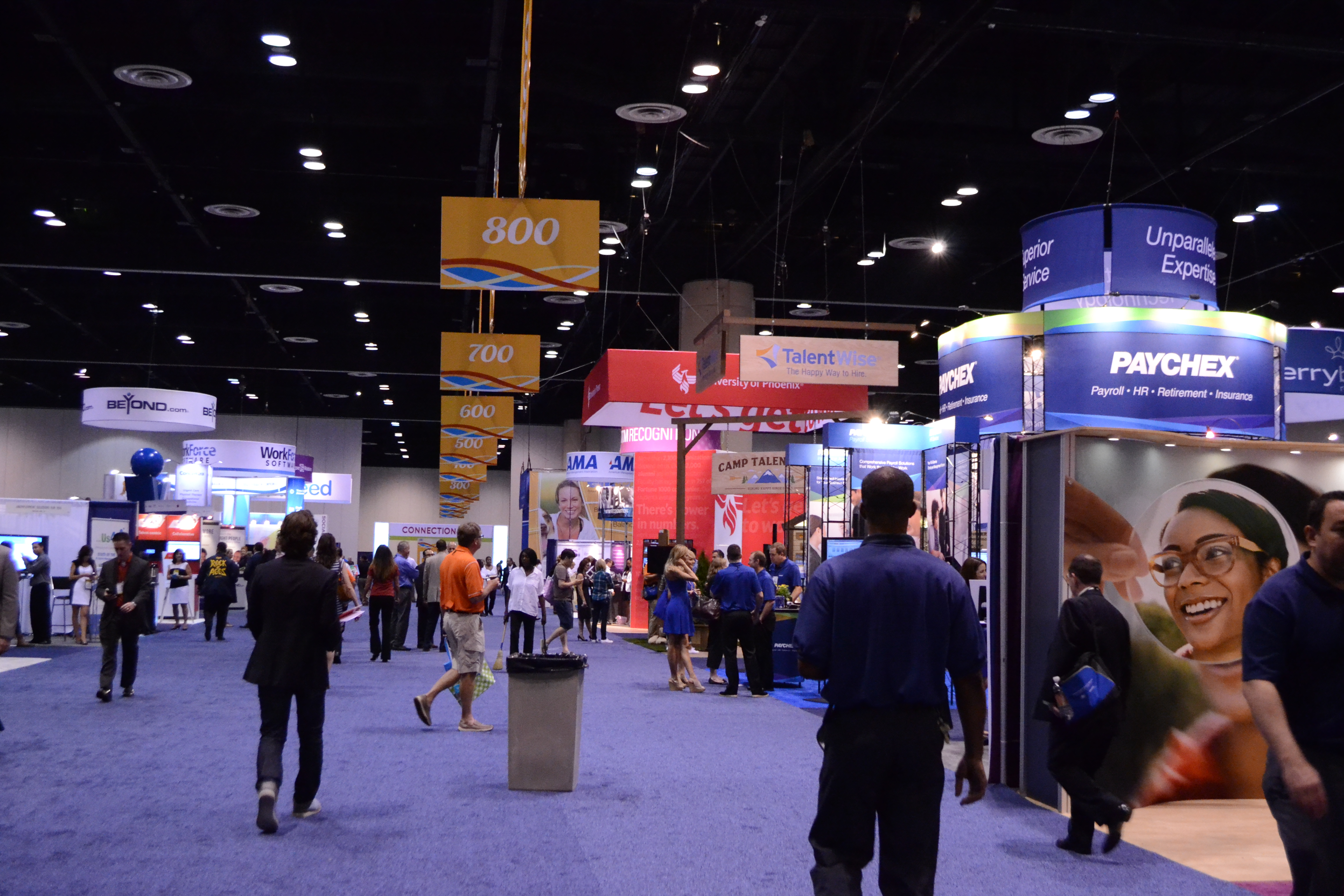 Photo of the 2014 SHRM Annual Conference exhibit floor, which took place at Orlando’s Orange County Convention Center.